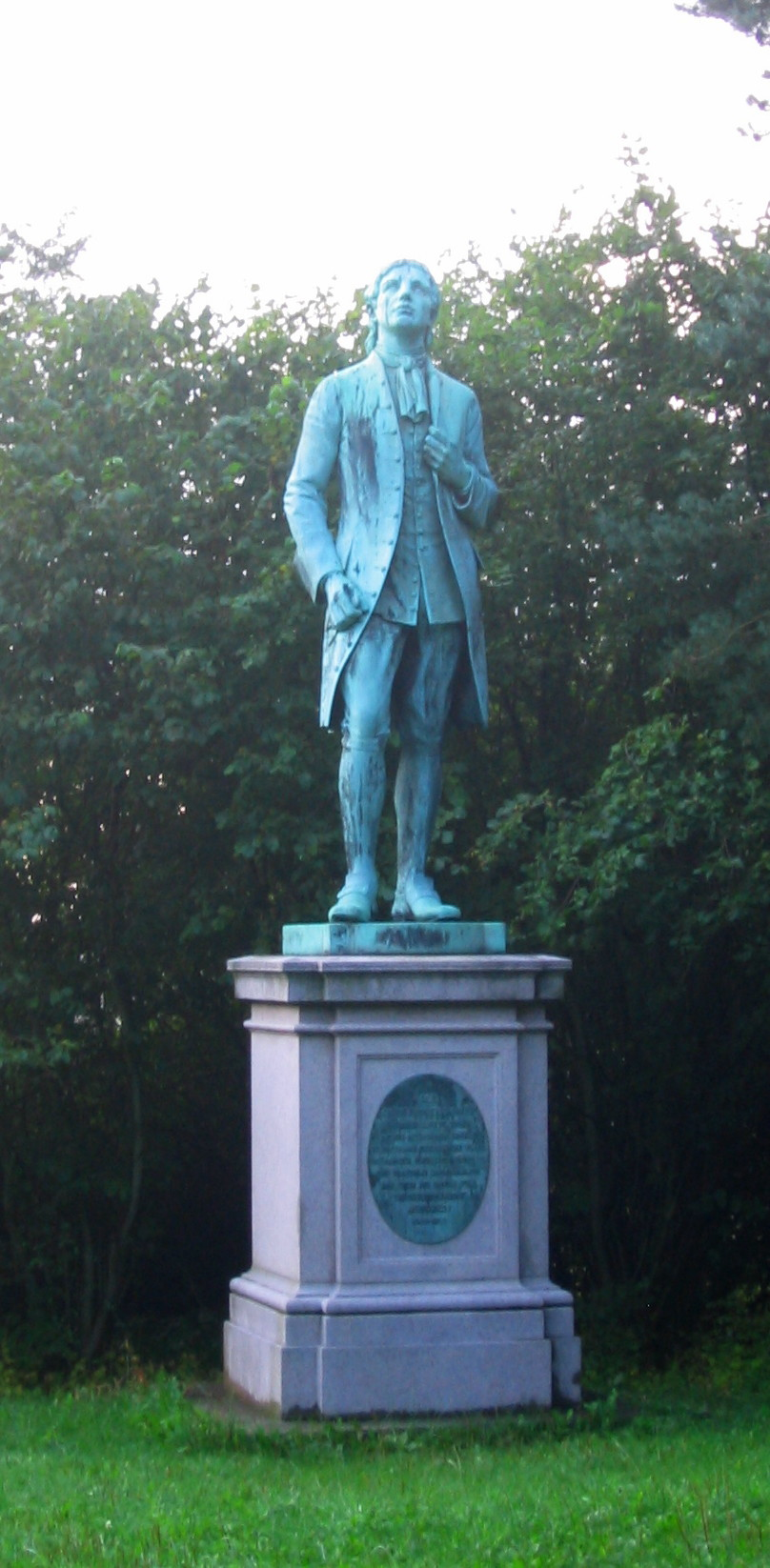 The statue of Ole Rømer at Observatorium Tusculanum, Vridsløsemagle, Denmark by Ludvig Brandstrup (1861–1935); with an inscription by Kirstine Meyer